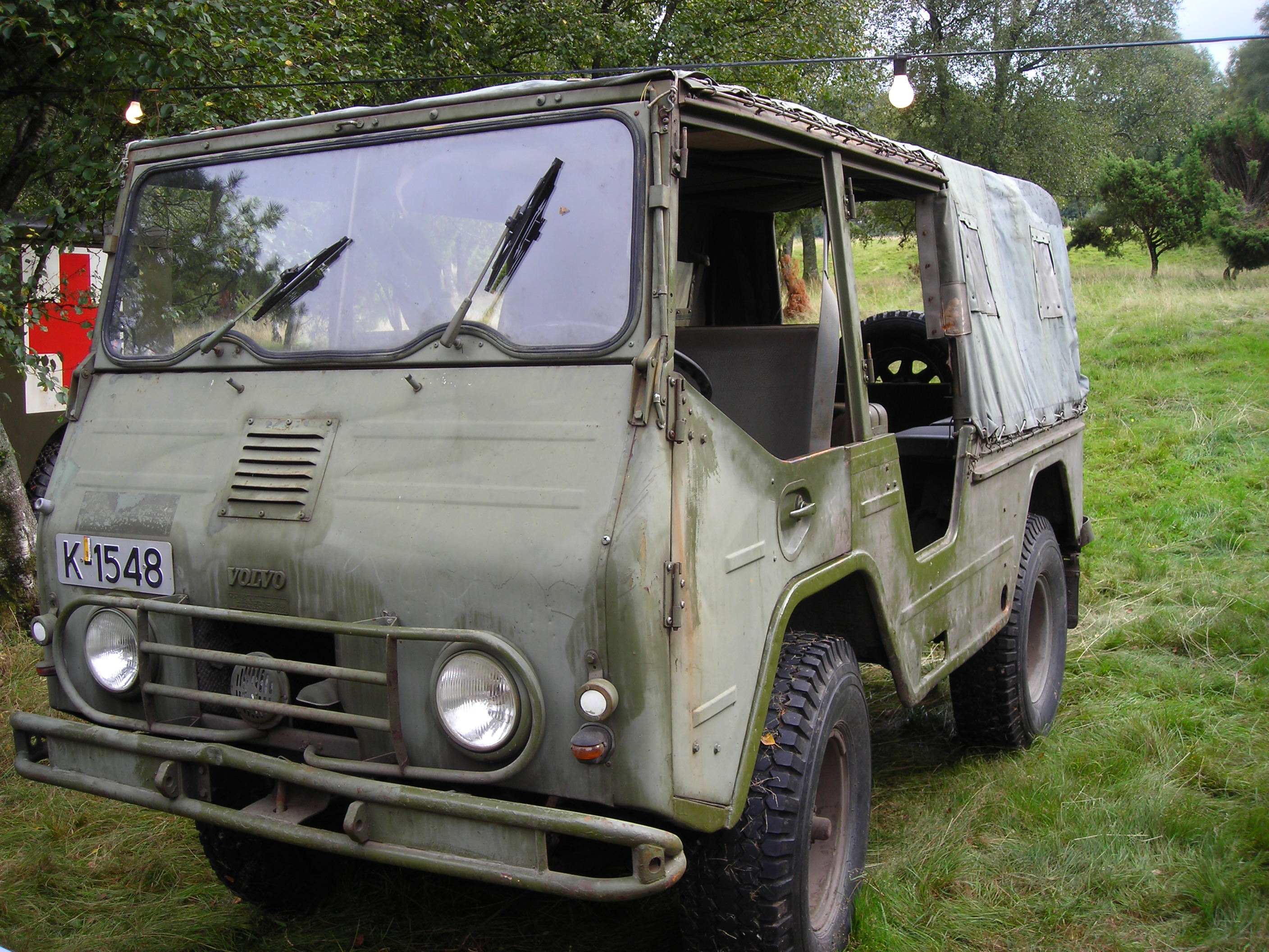 1968 Volvo L3314N, photographed at Lyngdal Dyrskue september 2006. Chassis number 6623.